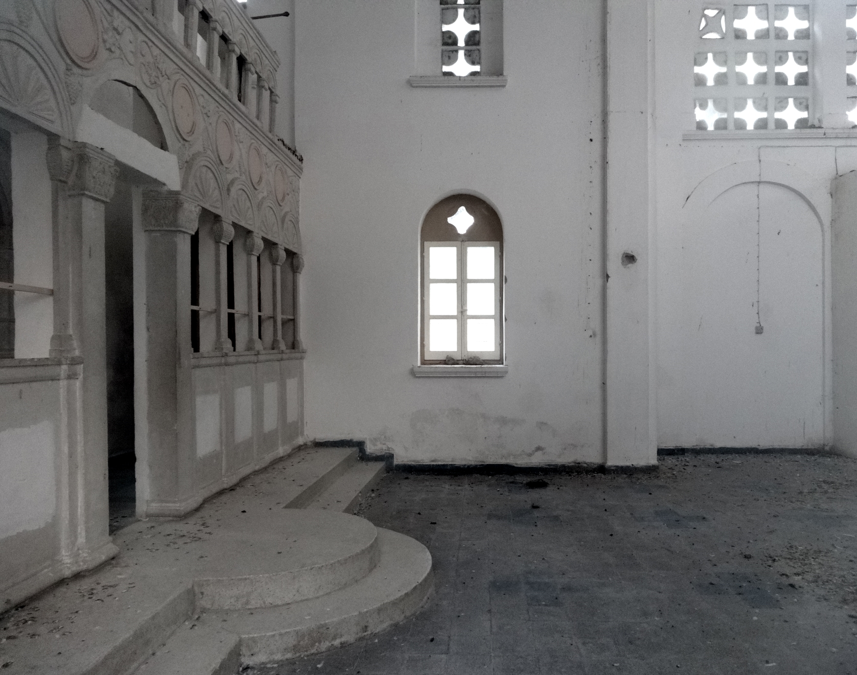 Interior of Ayios Sergios (interior) in Tavros, Cyprus. The left side of the picture is the east side of the church